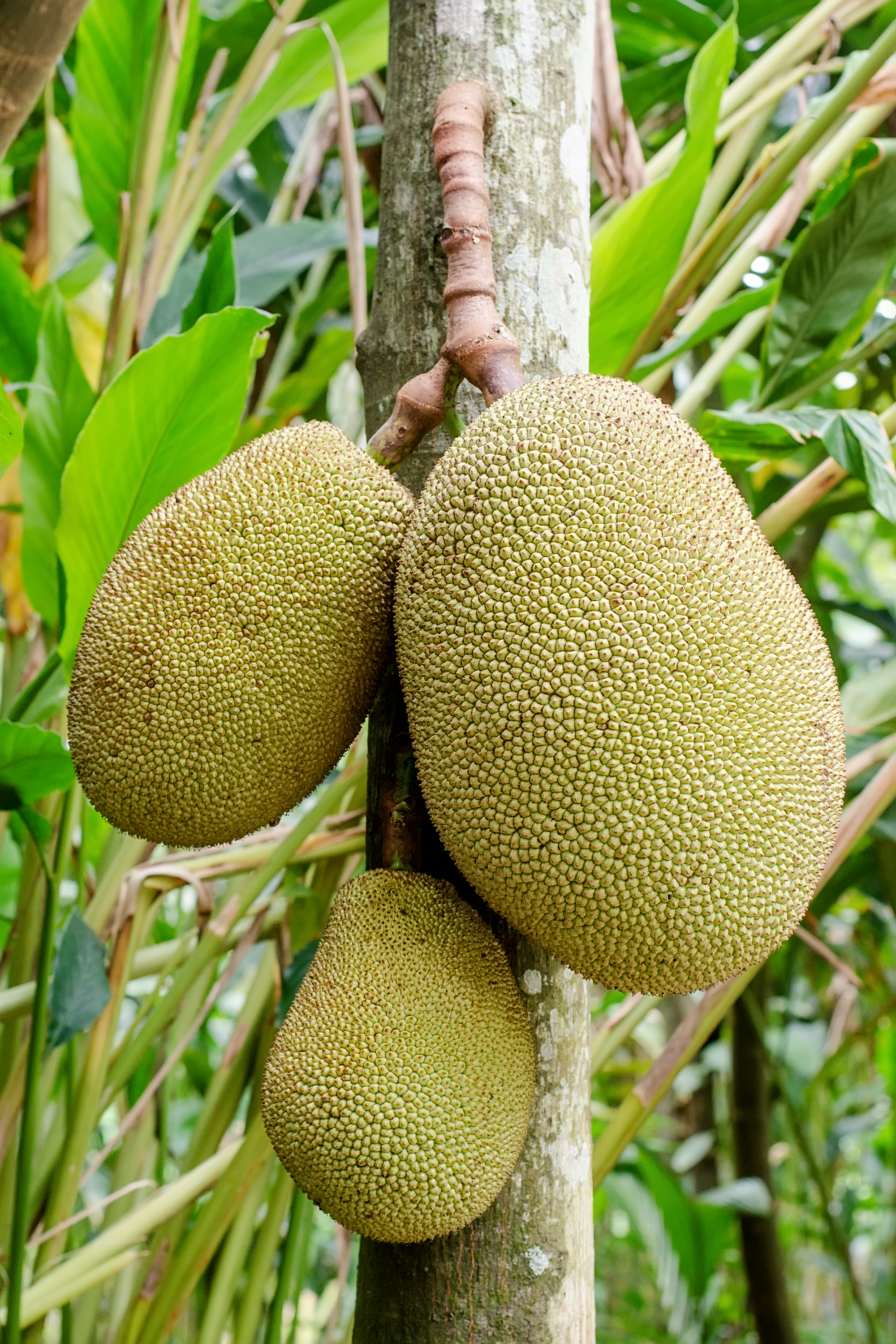 Jackfruit hanging